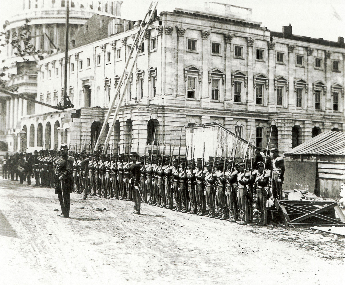 Soldiers muster outside East Front of the U.S. Capitol during the Civil War